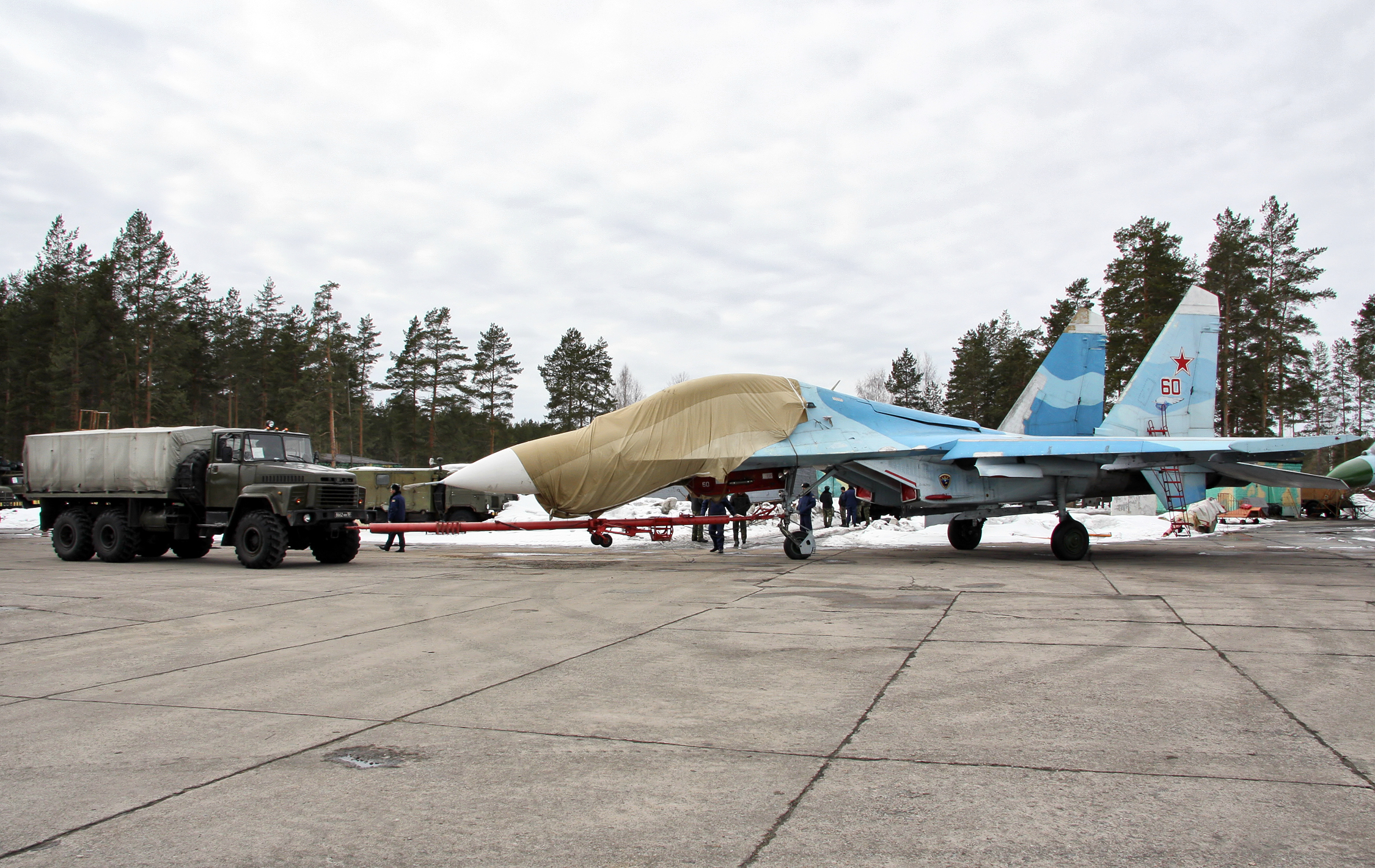 790th Fighter Order of Kutuzov 3rd class Aviation Regiment, Khotilovo airbase